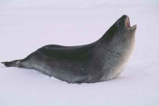 Ross seal (Ommatophoca rossii)